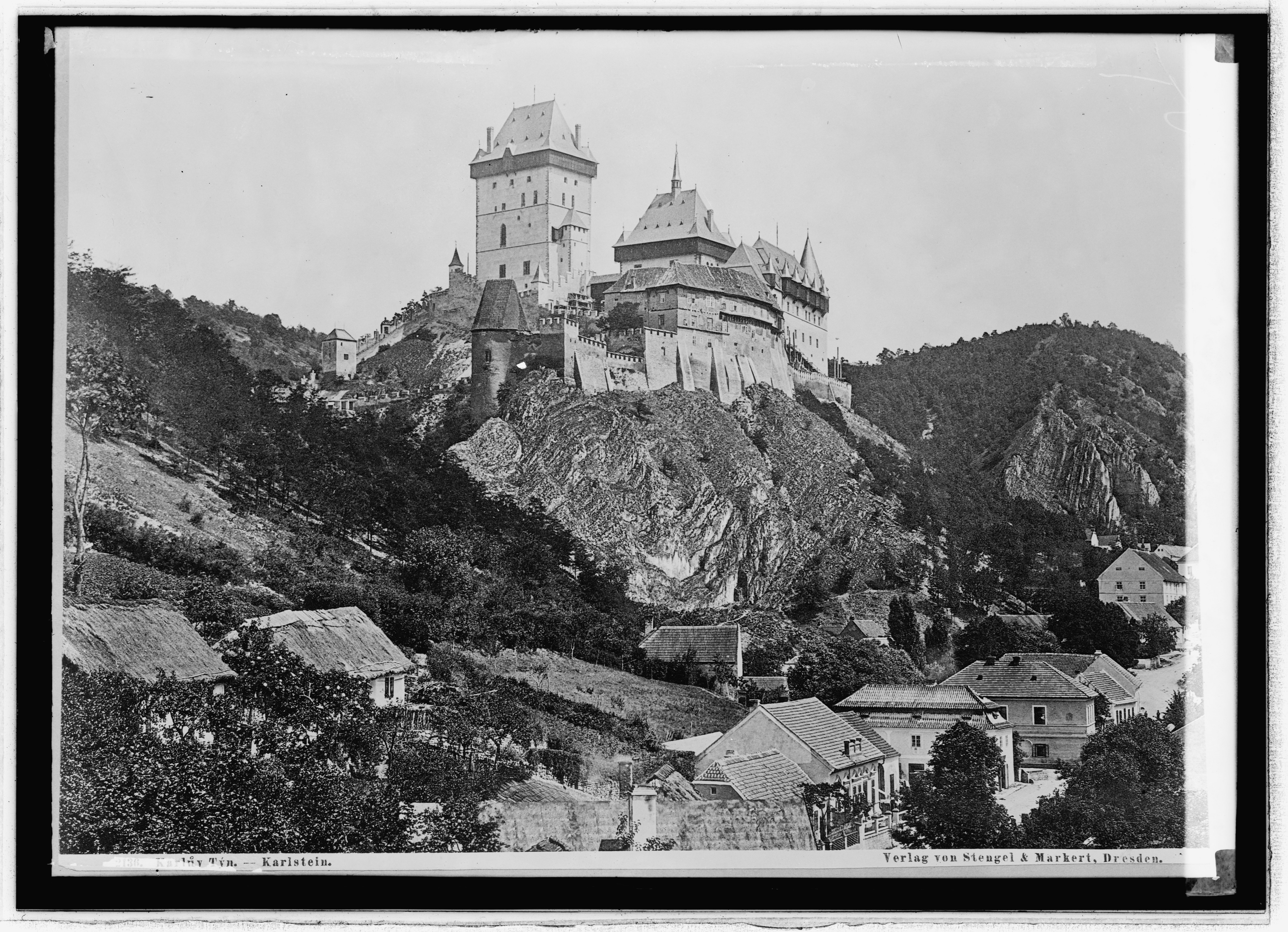 Title: Karlston Castle, Austria Abstract/medium: 1 negative : glass ; 5 x 7 in. or smaller